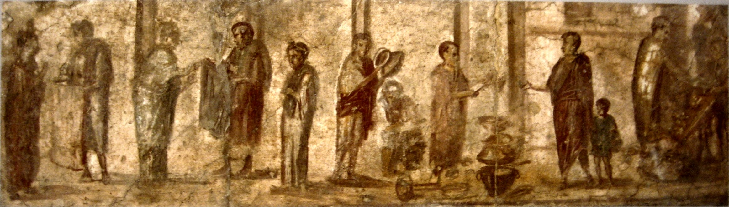 Fresco from the House of Julia Felix, Pompeii depicting scenes from the Forum market